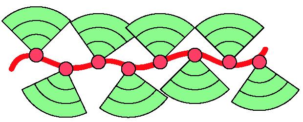 denpol cartoon structure